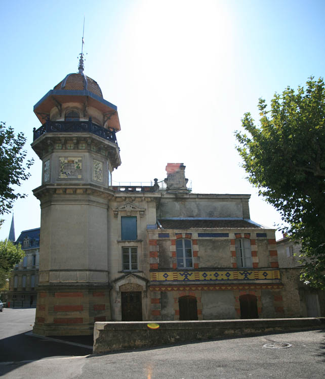 the village of Courthézon, Vaucluse, France